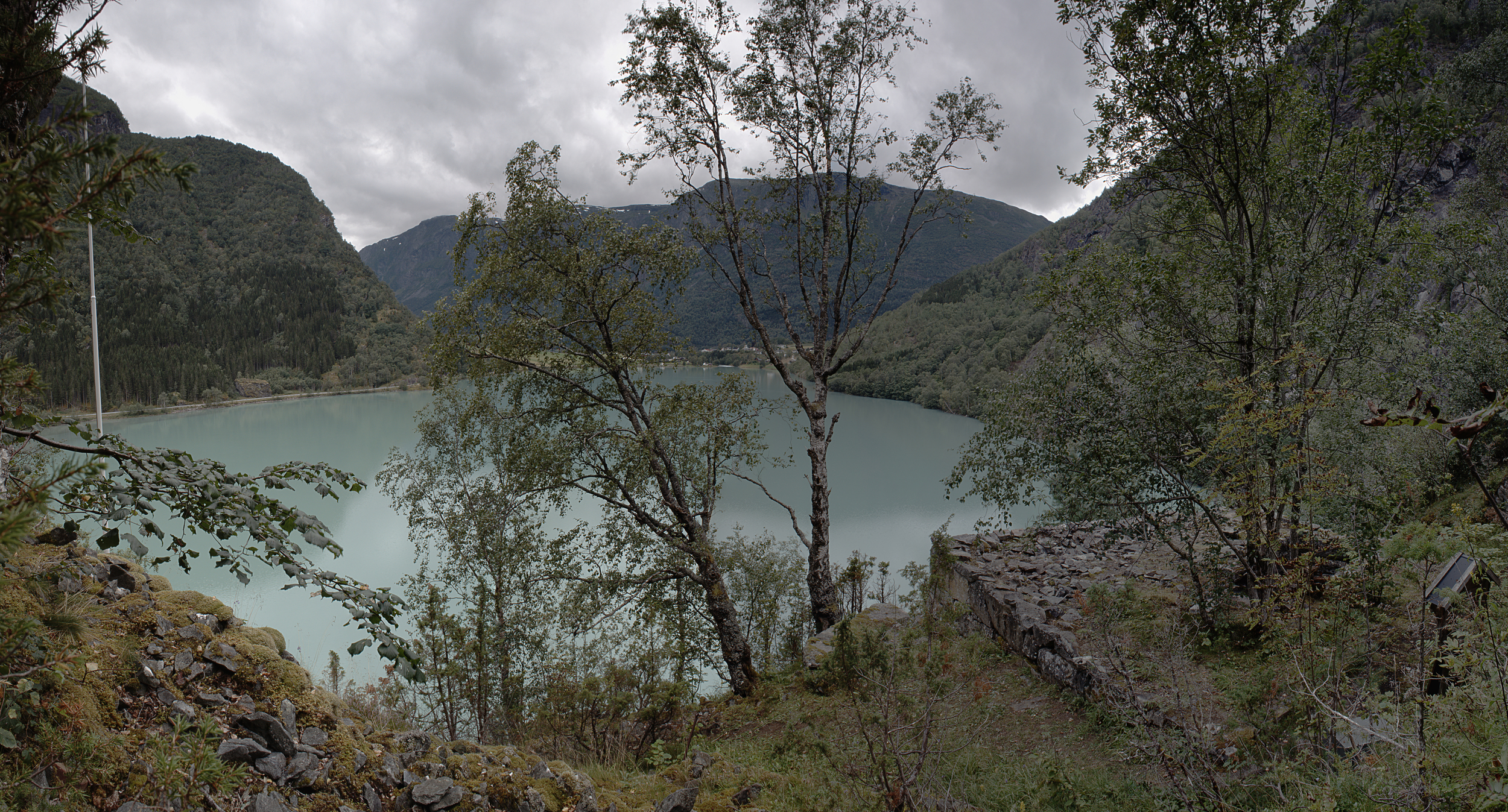 The remains of the Ludwig Wittgenstein cottage by Eidsvatnet in Luster, Norway.